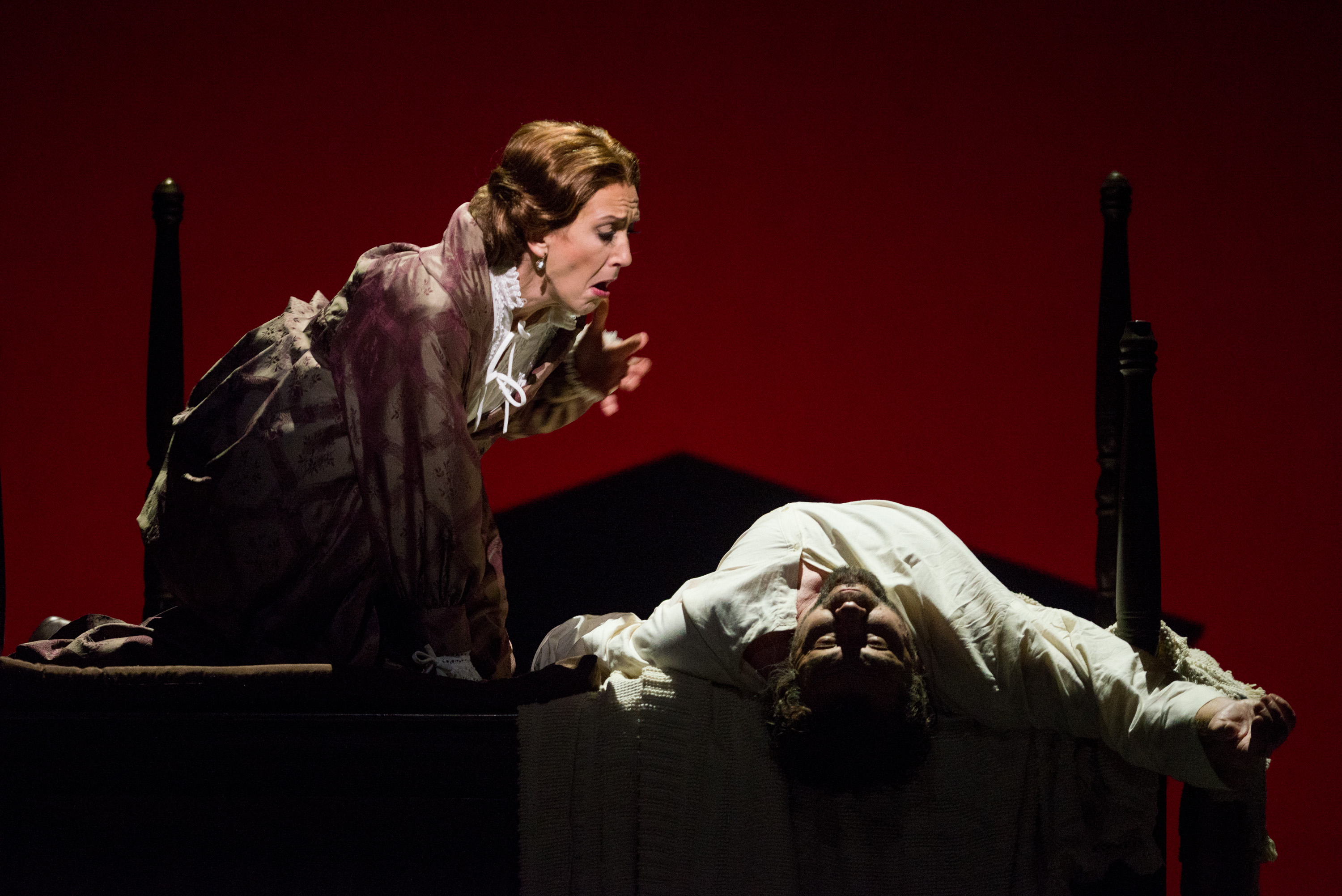 Dress Rehearsal November 4, 2013 The Broward Center